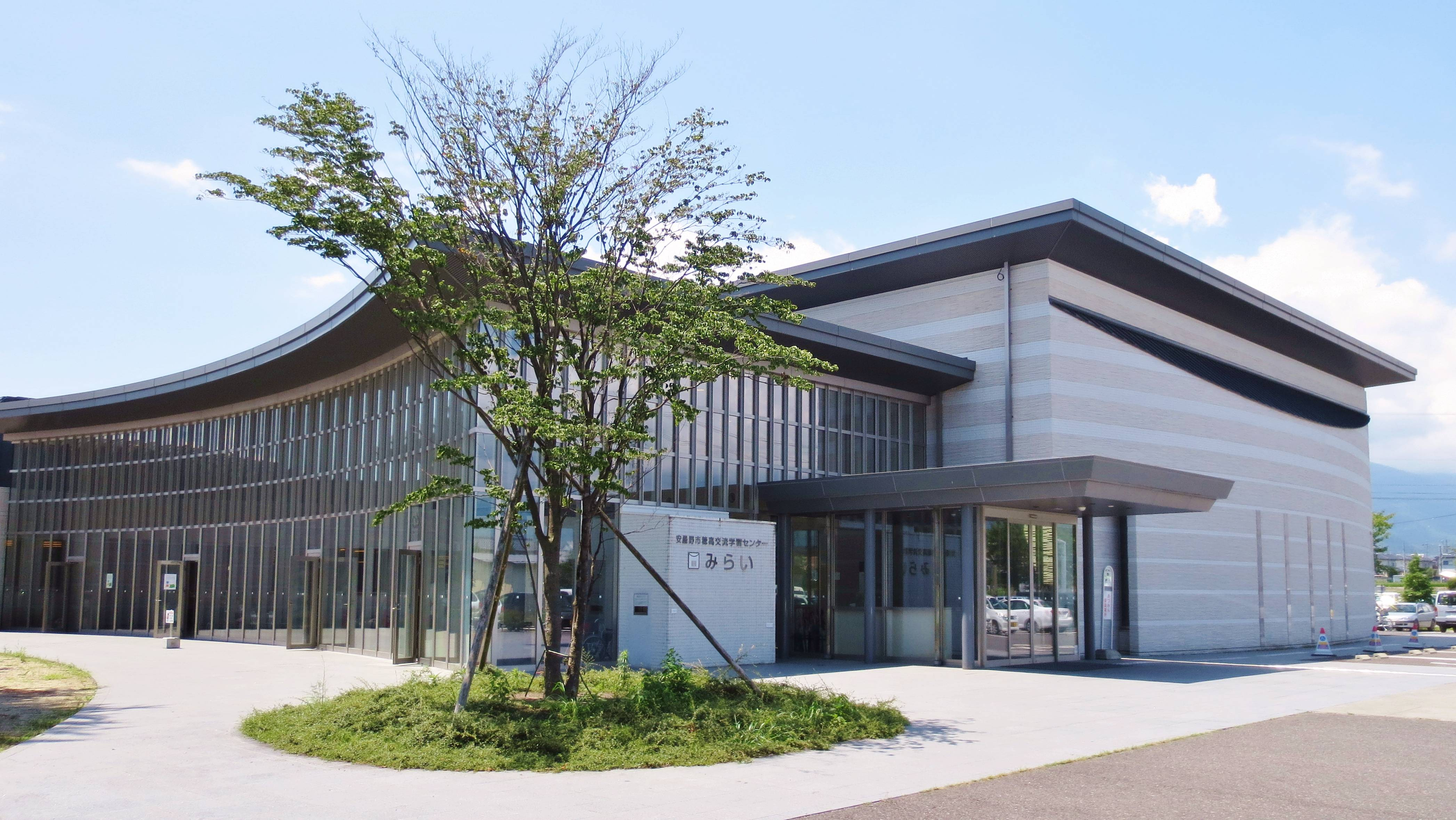 Azumino city Hotaka exchange education center MIRAI.